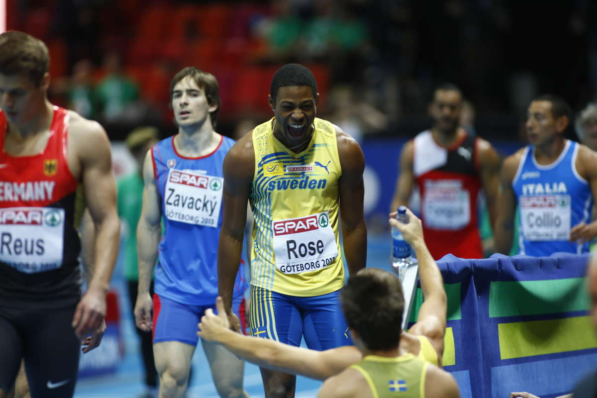 Odain Rose after race